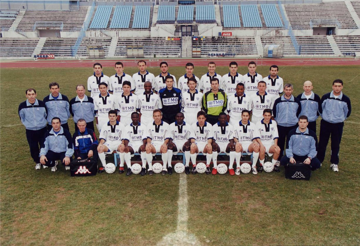 Iraklis Team in Kautanzoglio Stadium (2000)